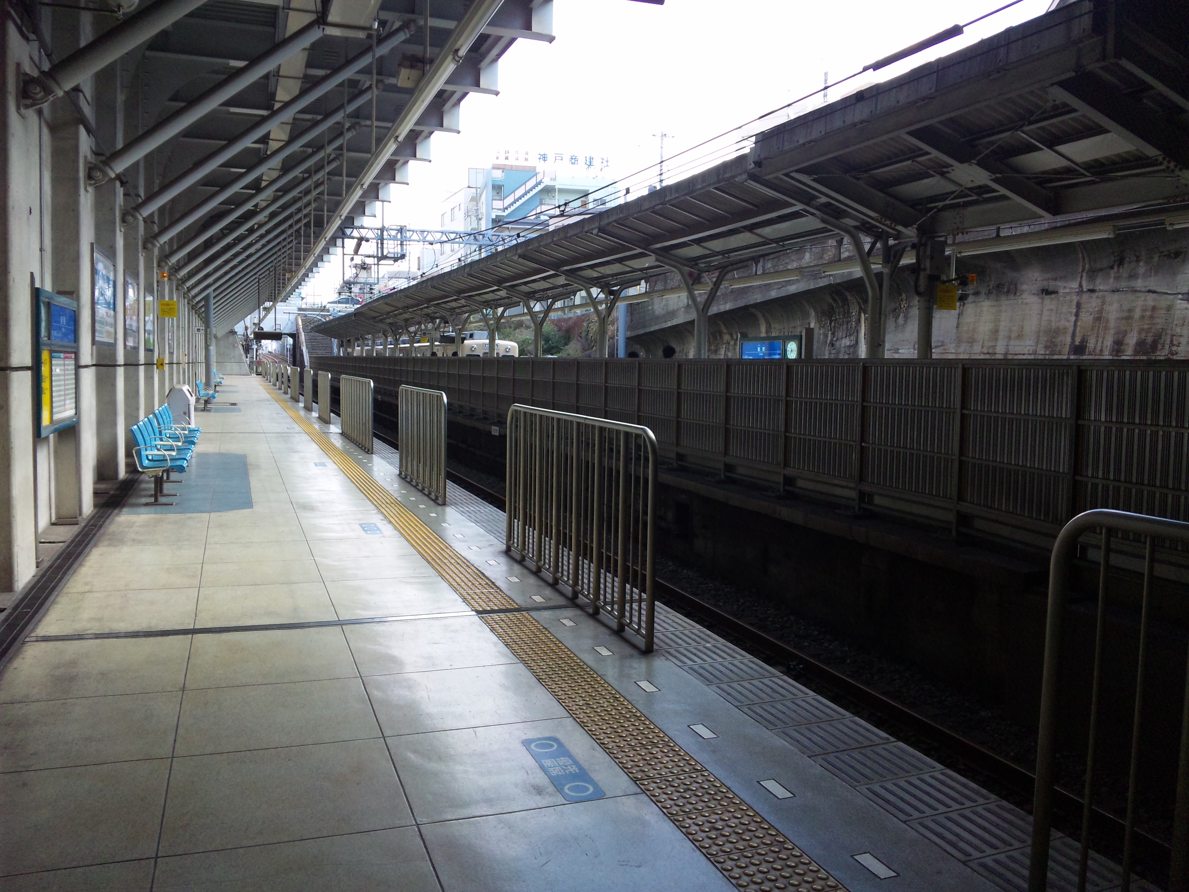 Hanshin Iwaya Station Plathome